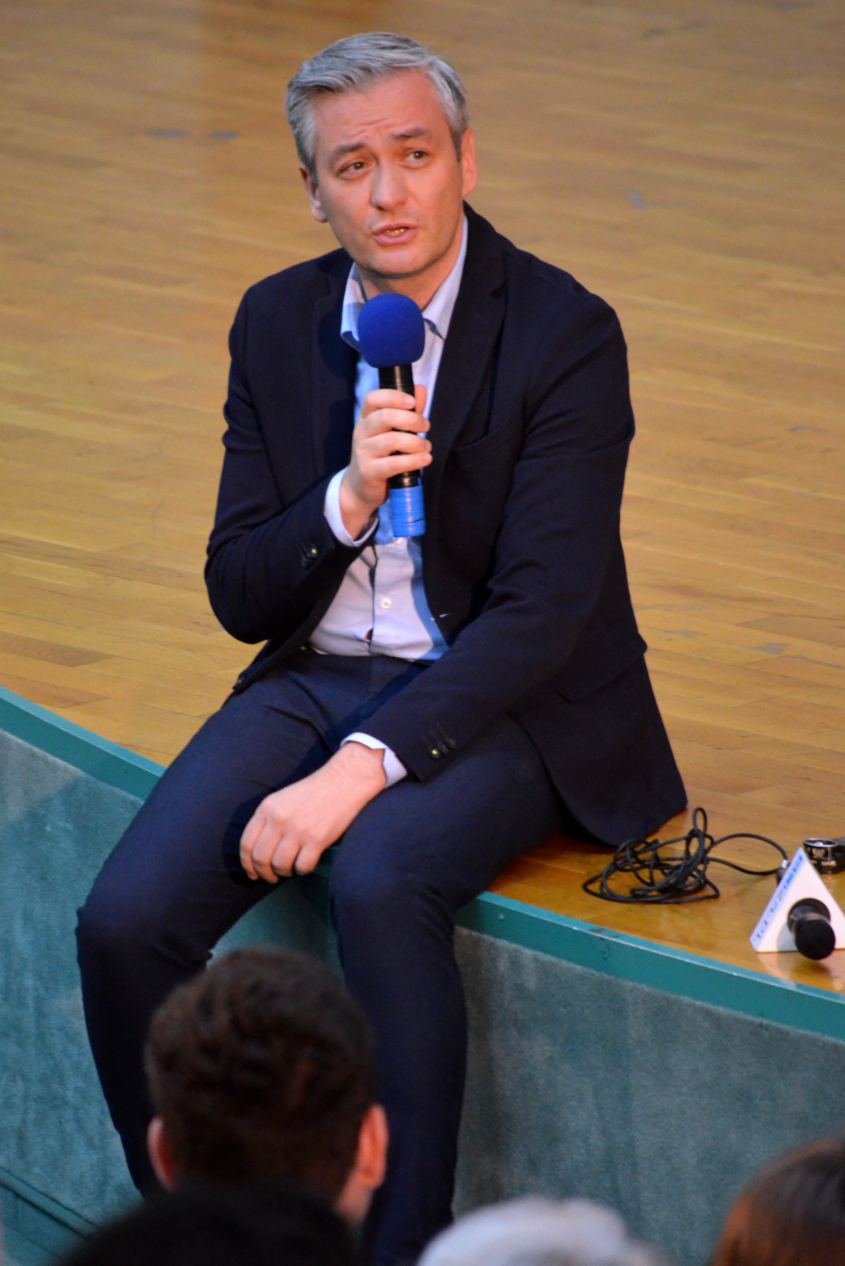 Bürgermeister von Słubsk Rober Biedroń zu Besuch an der FHöV in Bielsko-Biala